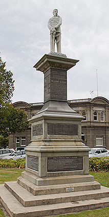 Photo of monument to Major Kemp erected by the grateful people of New Zealand in Moutoa Gardens, Whanganui. For use at Te Keepa Te Rangihiwinui